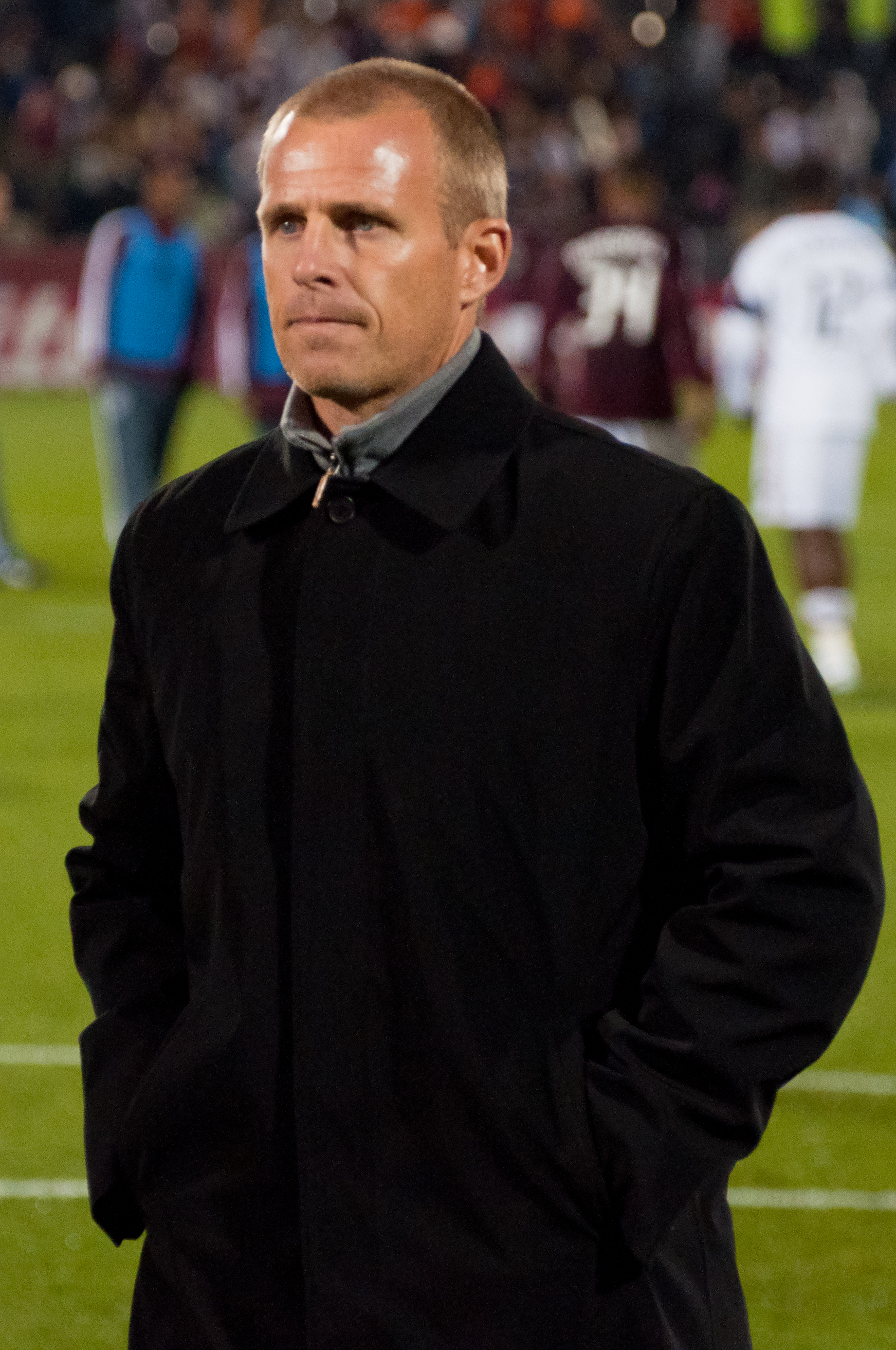 Gary Smith was the Coach of the Colorado Rapids (MLS) from 2008-2011